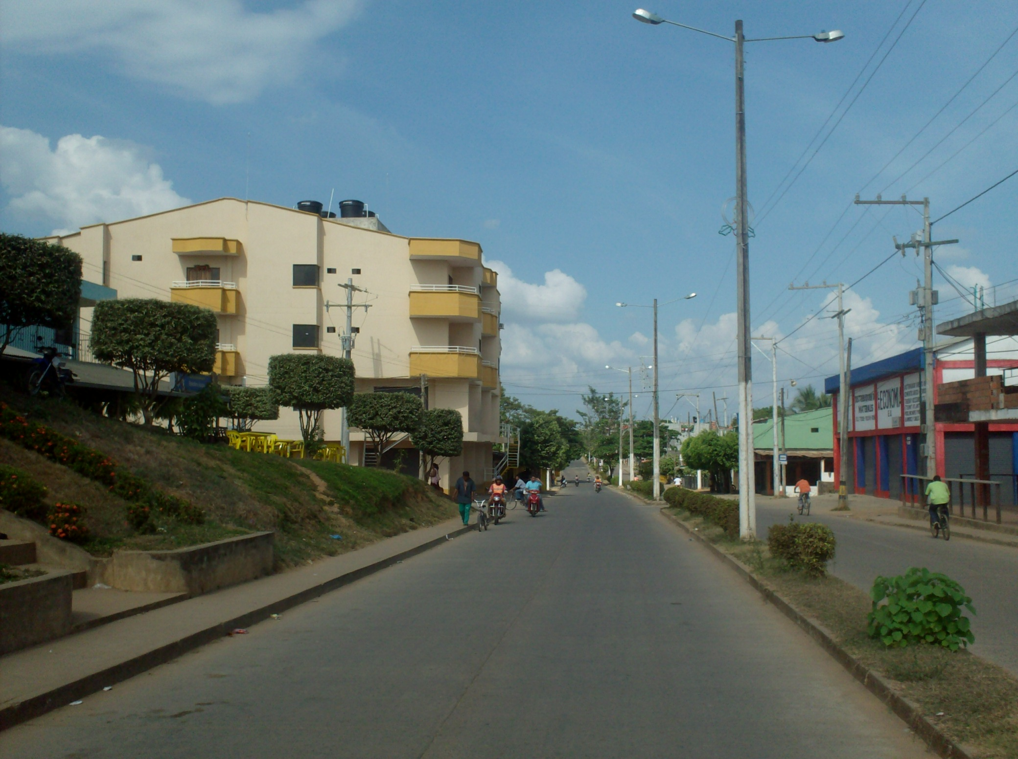 Avenida de los Estudiantes Montelibano Colombia